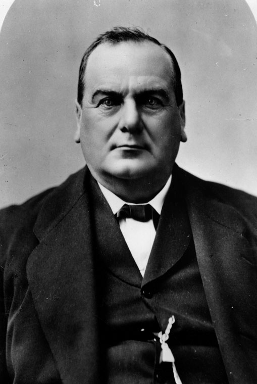 Portrait of Gen. Phineas Banning. He served as Bridgadier General, 1st Brigade, California militia. He was the person most responsible for a harbor at San Pedro.